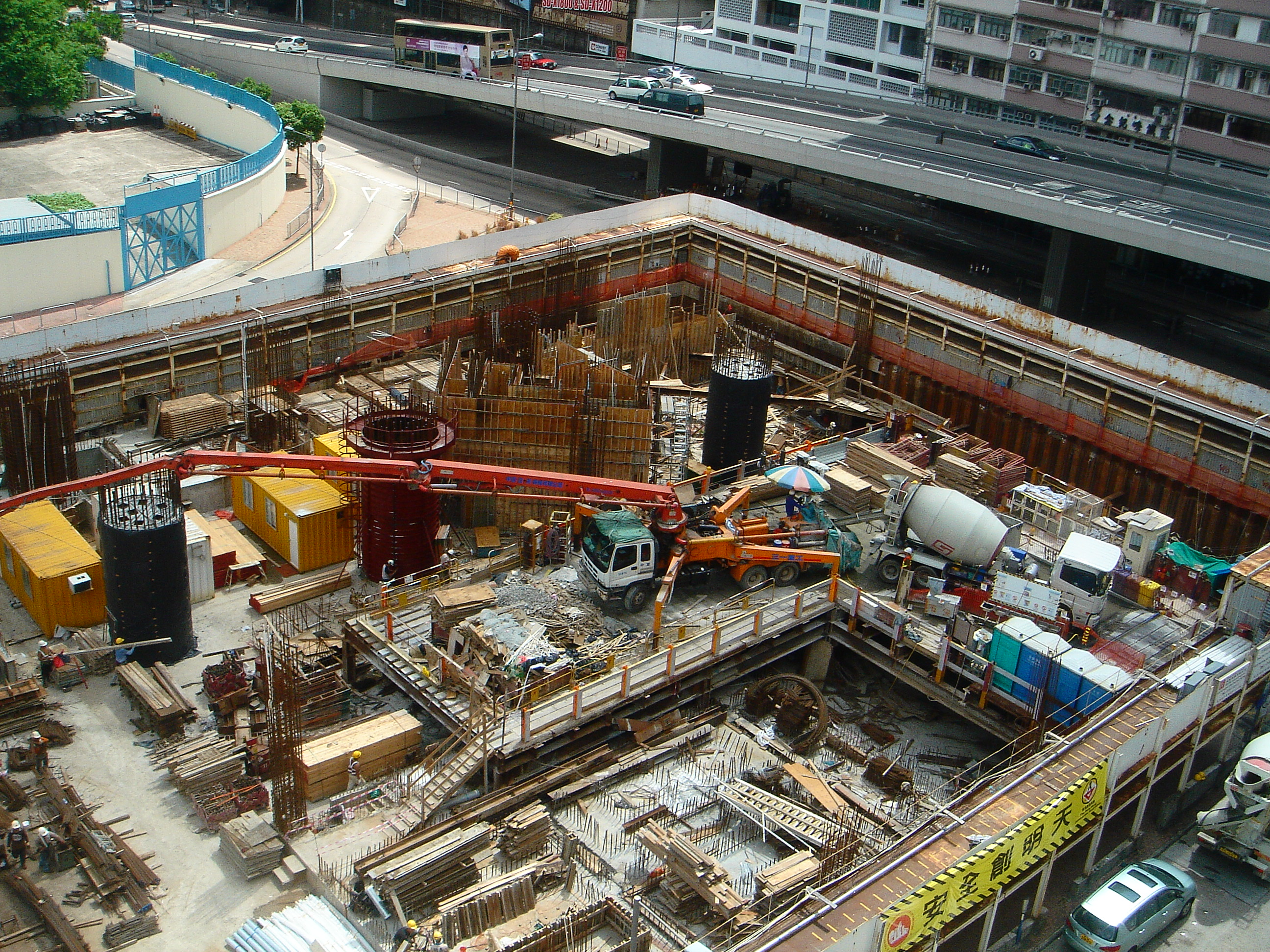 hung hom ,Chatham Road